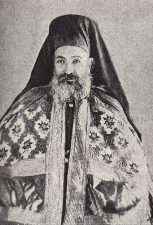 Sophronius III, Archbishop of Cyprus